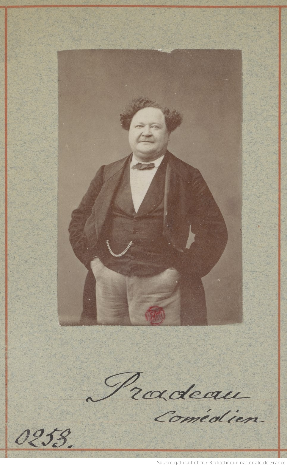 Étienne Pradeau, French comedian (1817-1895), photography by Atelier Nadar